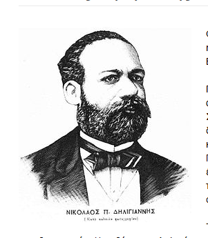 Greek prime minister (January - May 1895) Nikolaos Deligiannis